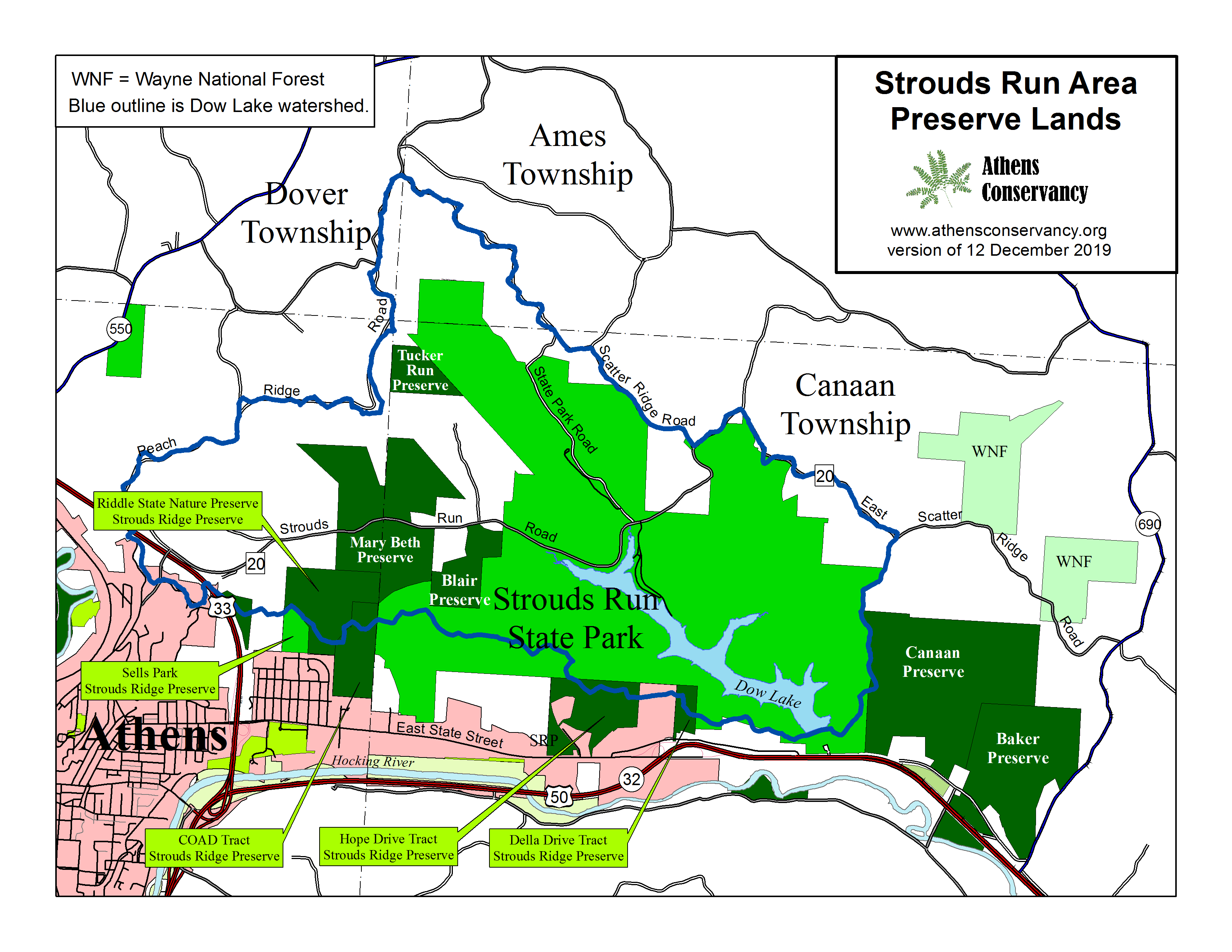 Preserve lands around Strouds Run State Park, Athens, Ohio, with Strouds Ridge Preserve noted